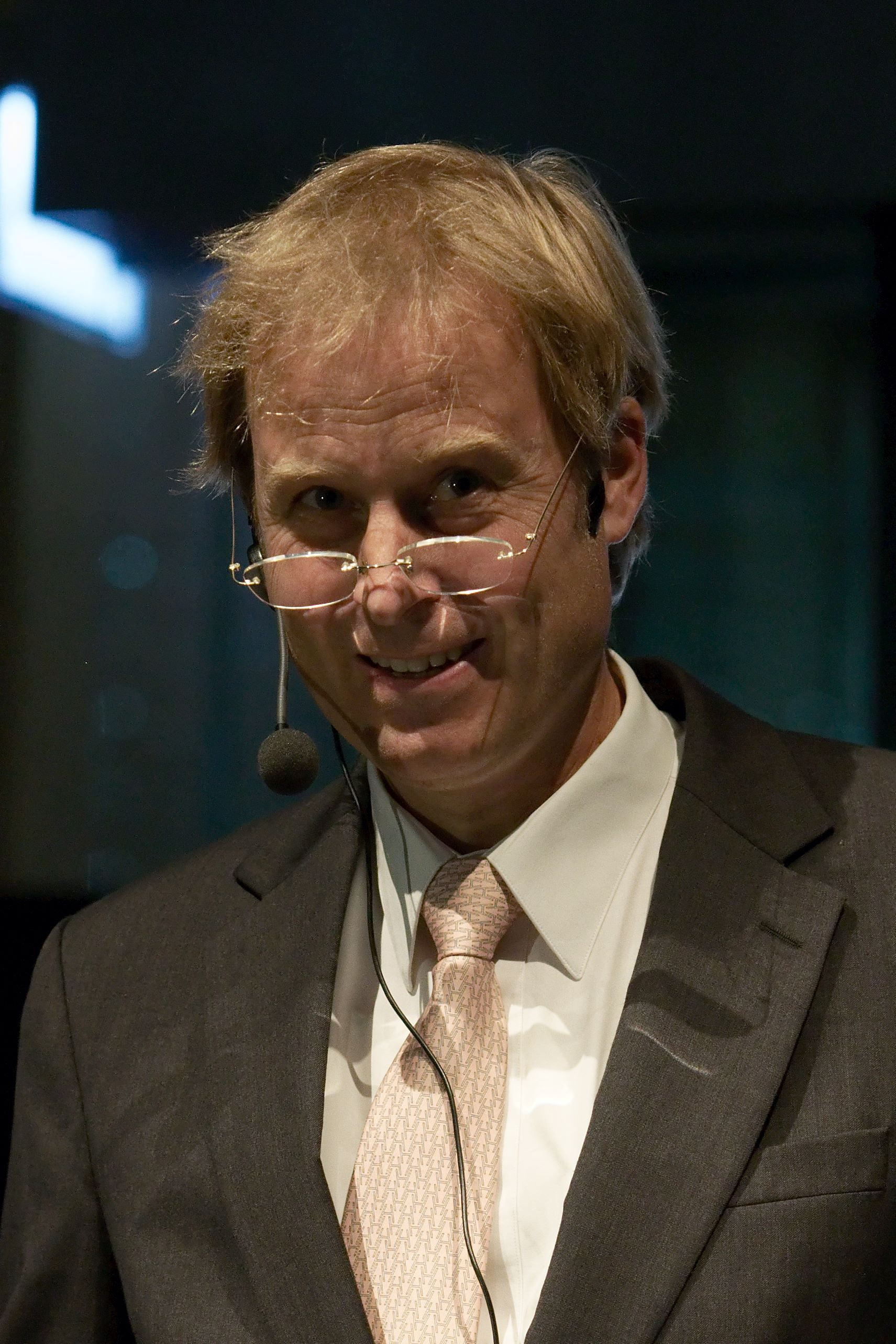 Opening of the exhibition "Marie Skłodowska/Madame Curie" at the Nobel Museum in Stockholm